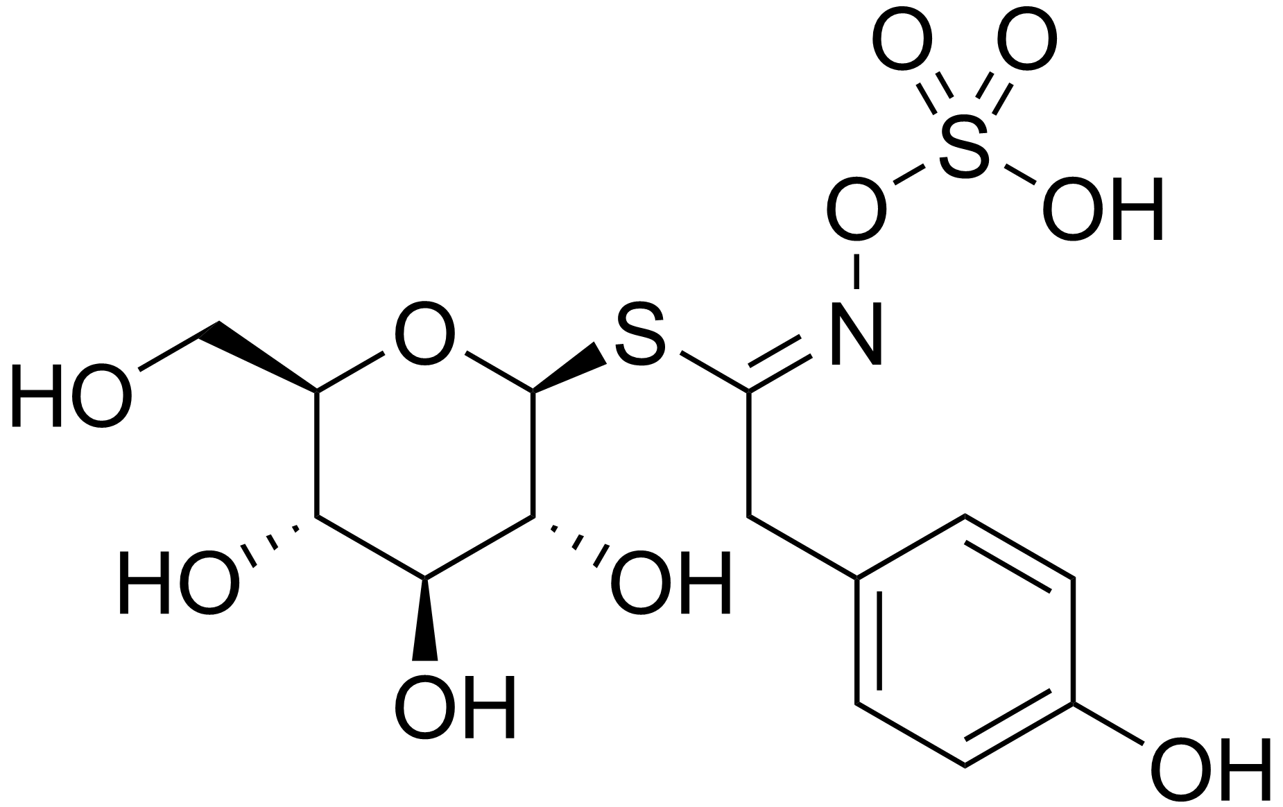 chemical structure of sinalbin